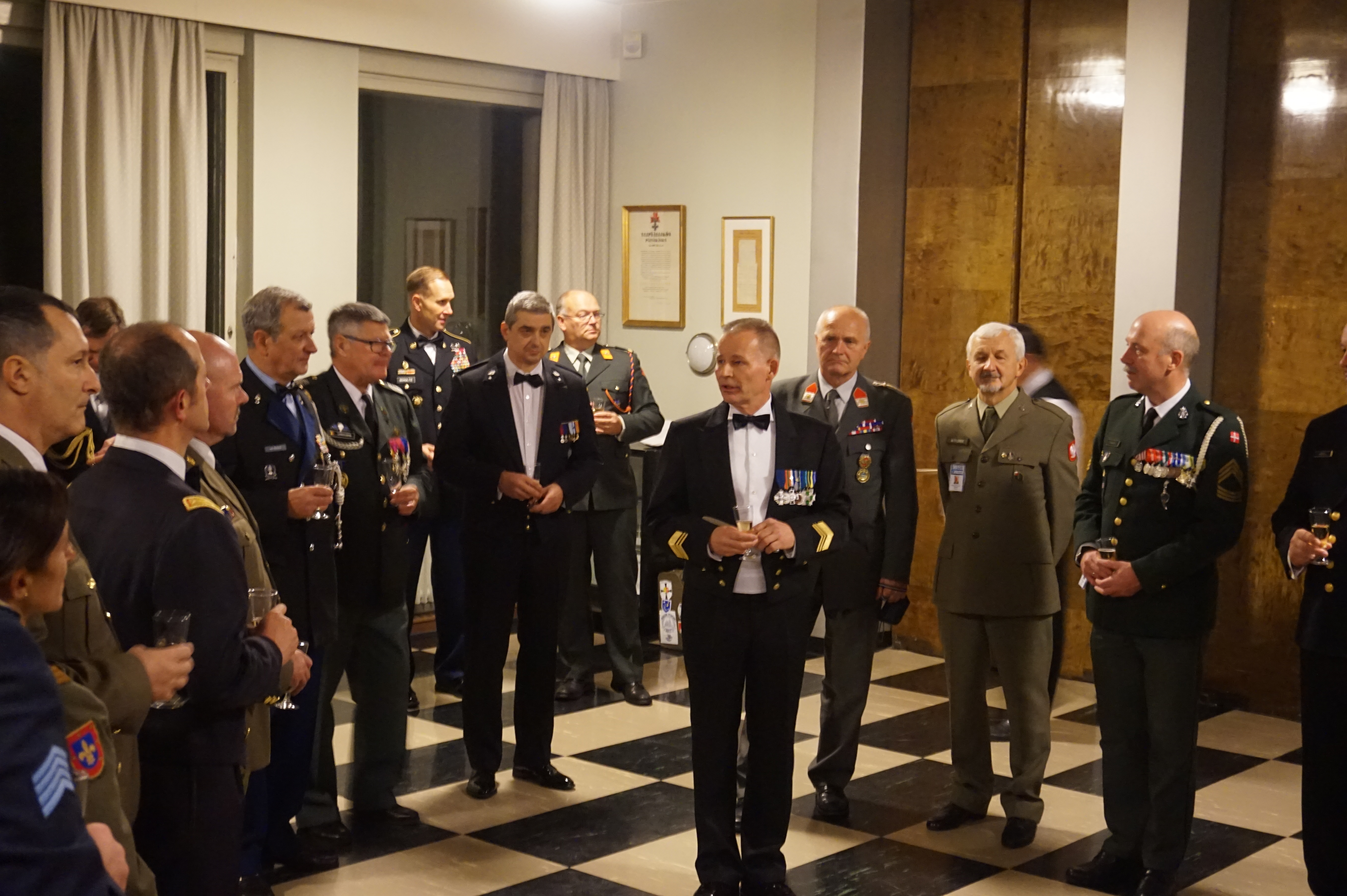 The CISOR Congress and the Central Committee meeting 2016 in Helsinki have ended. The photo has been taken moments before the gala dinner when CISOR president Ilpo Pohjola spoke to the delegates and the special guests.